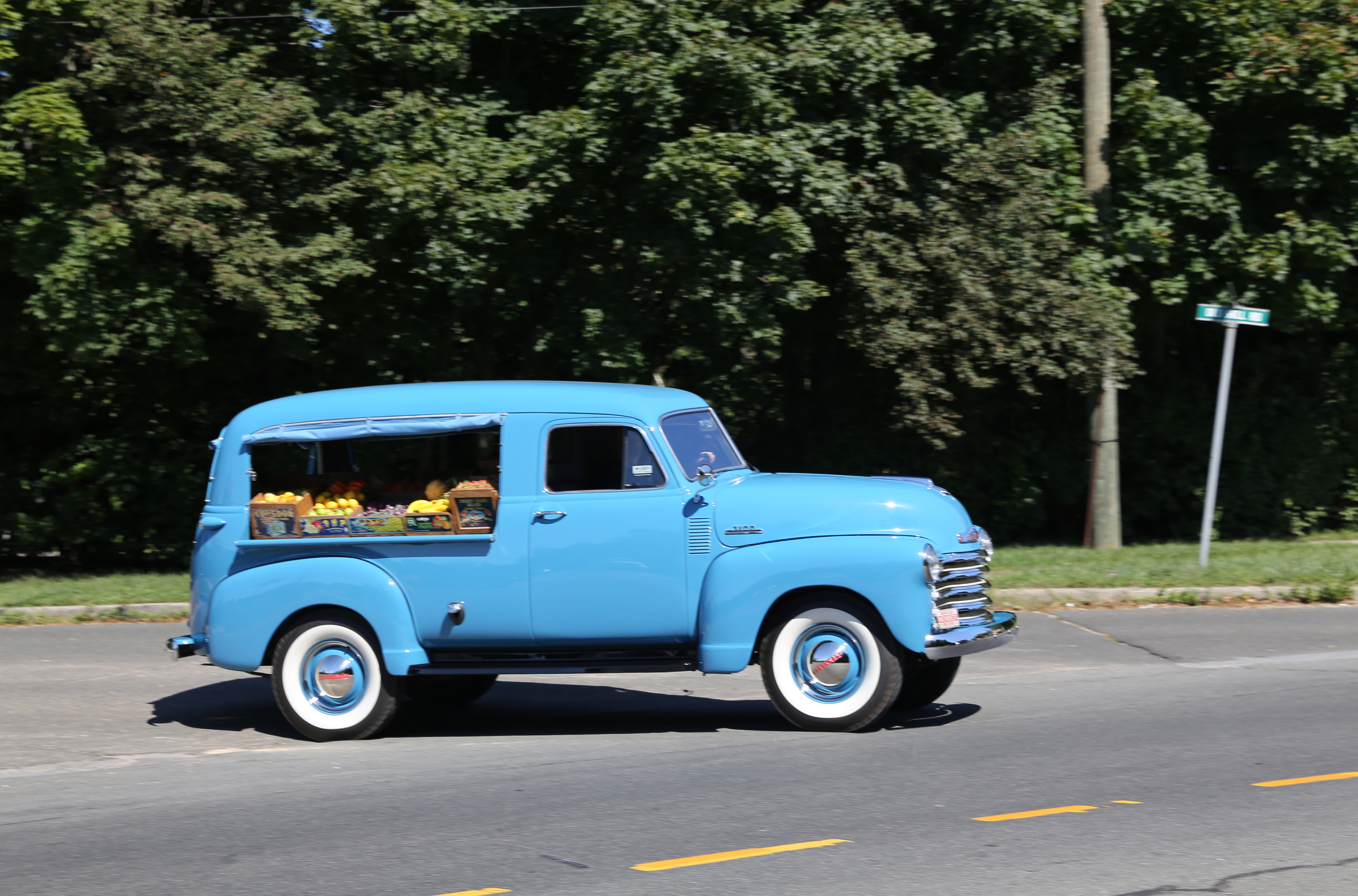 1953 Chevrolet Advance-Design 3100 Canopy Express, loaded with fruits and veg - I assume it's heading for the farmer's market.